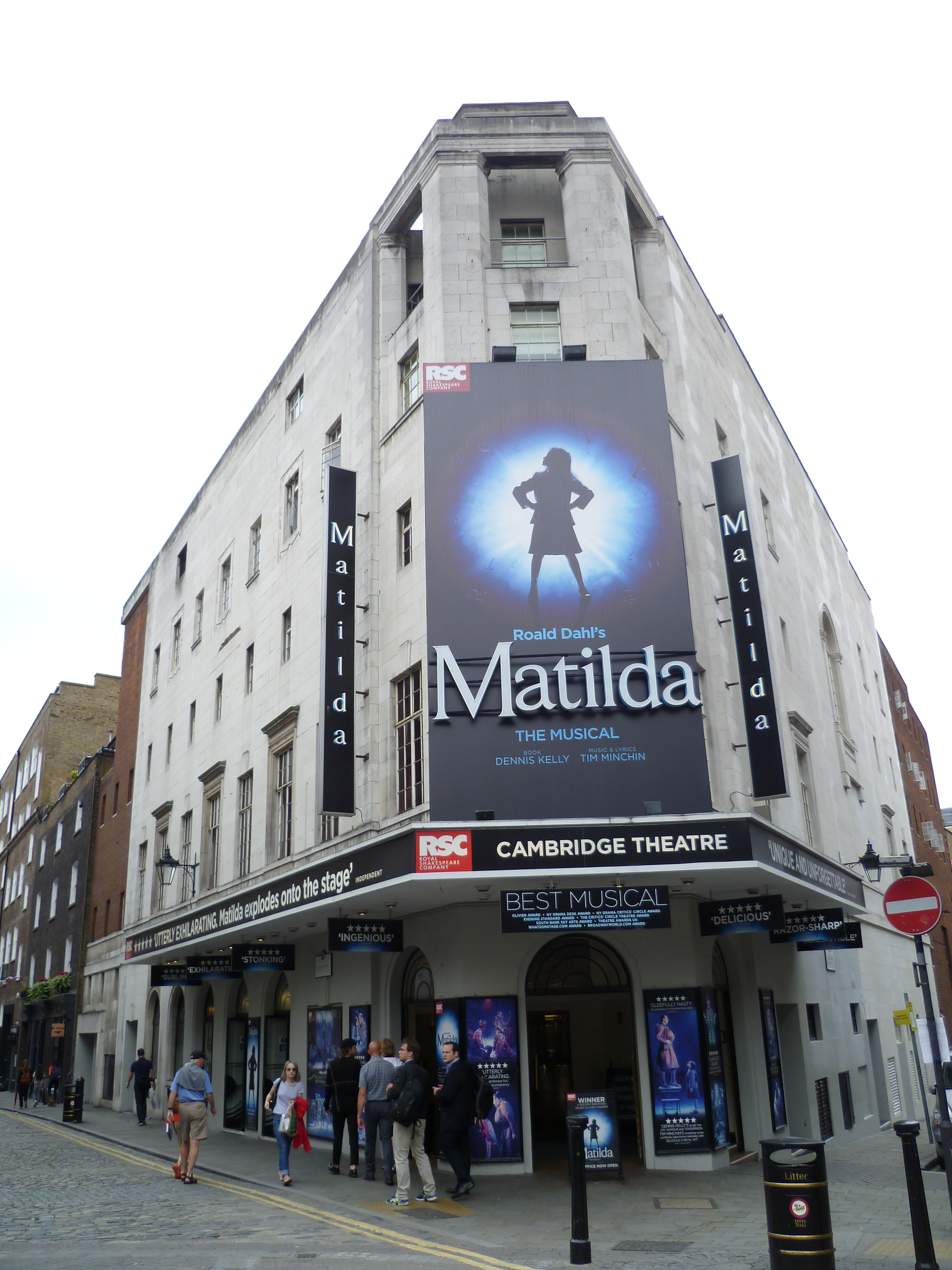 Cambridge Theatre, London, 28 July 2016